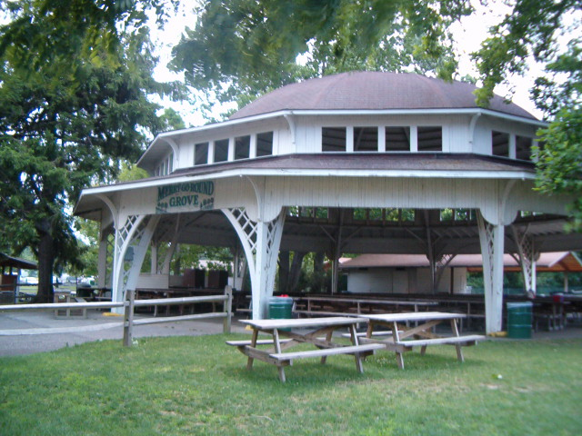 Pavillion at Waldameer Park and Water World, Erie, Pennsylvania